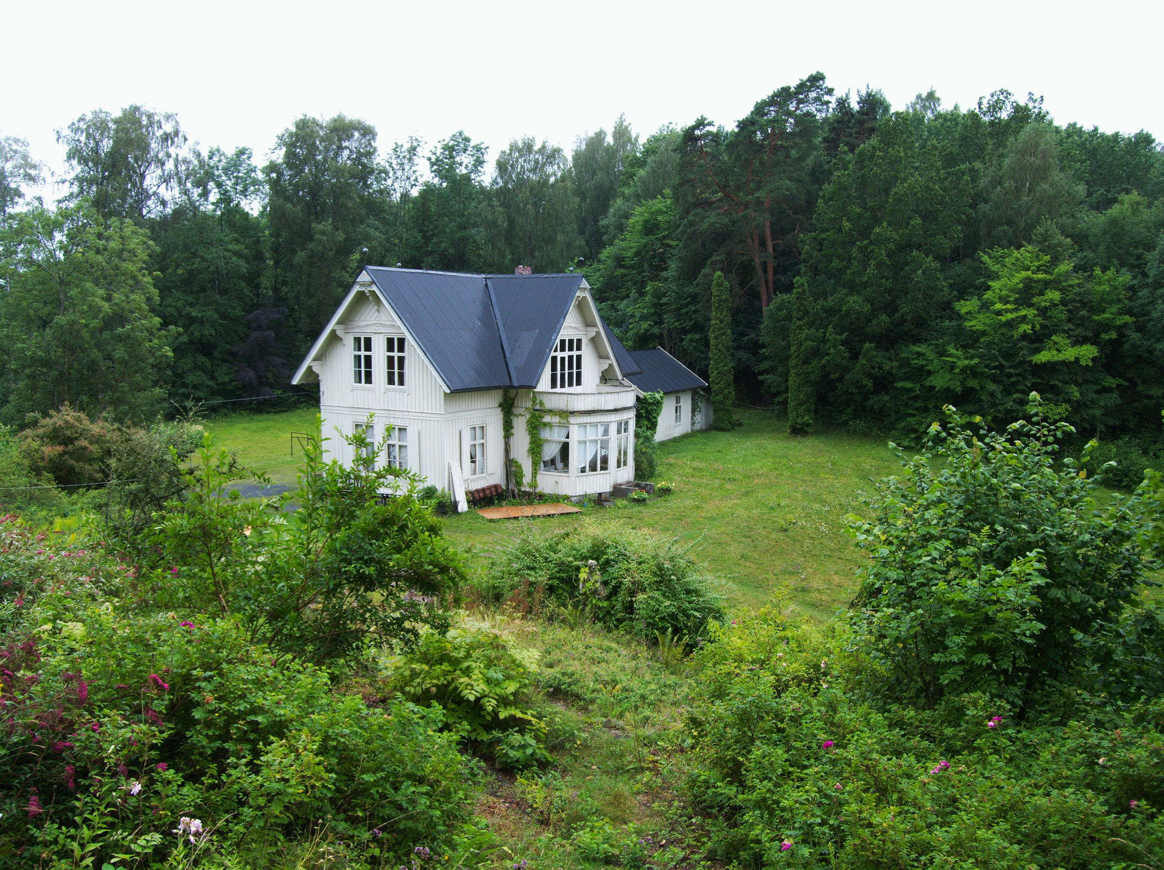 Esvika with garden in 2009